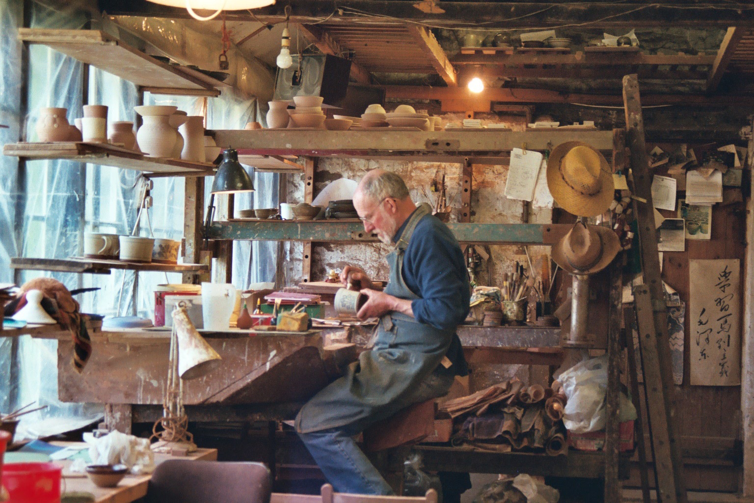 Peter Dick slip trailing a pot at Coxwold Pottery-2003